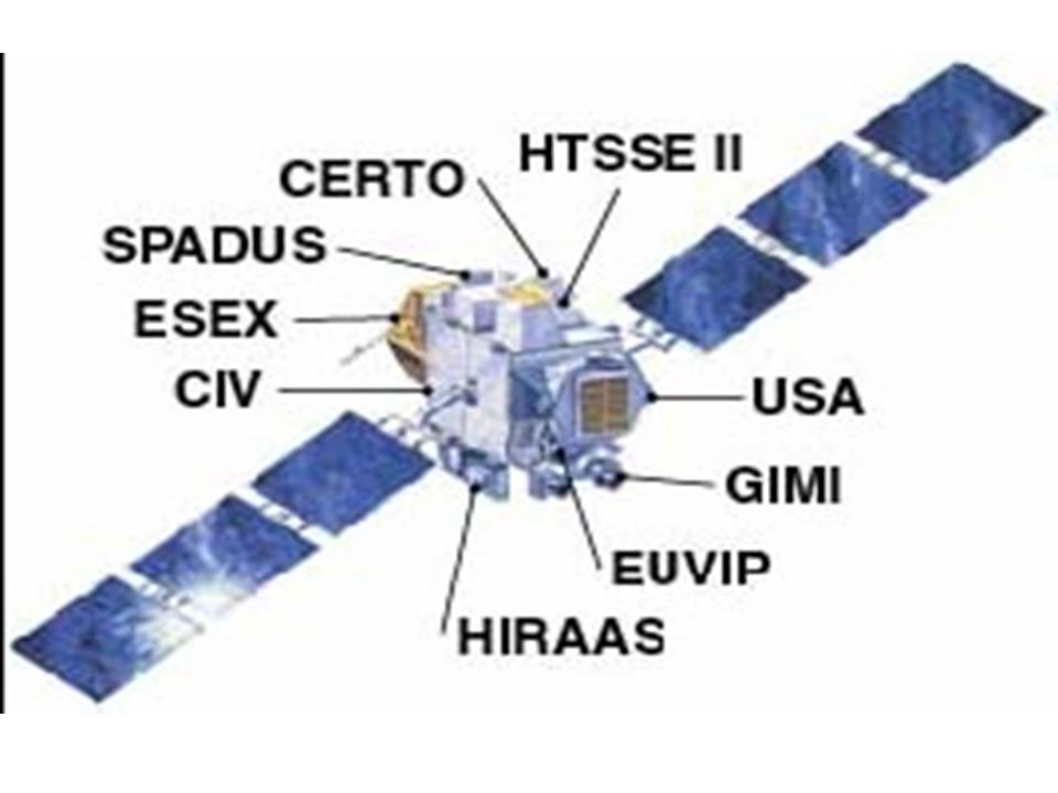 own work